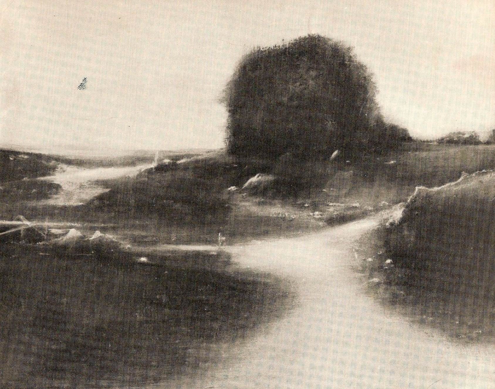 André Queffurus work of arts